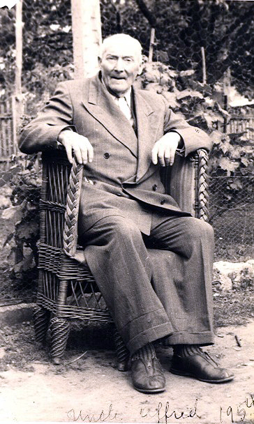 Richard Arthur Norton (1958- ) archive.